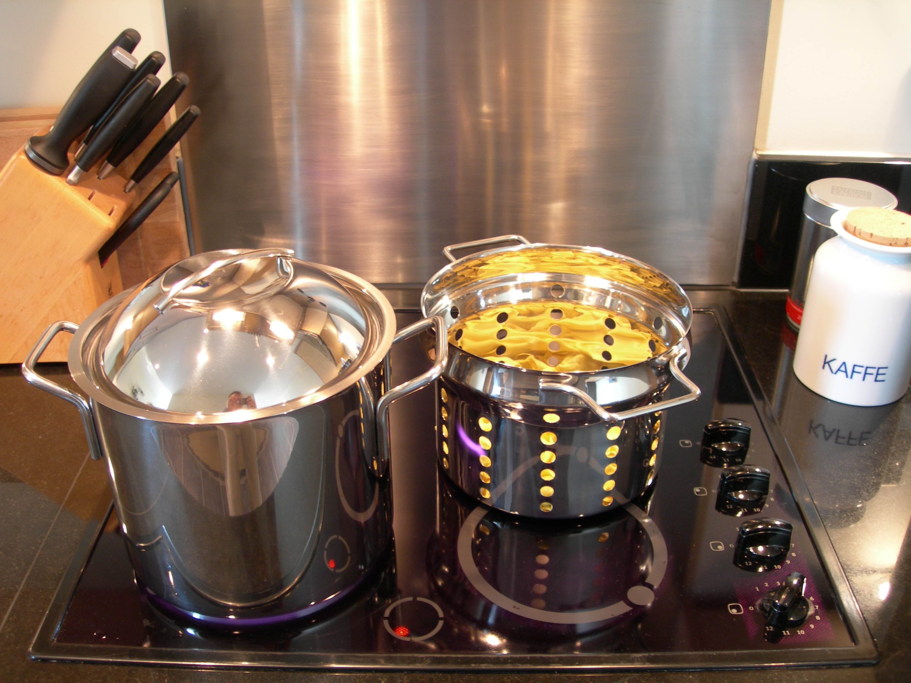 Pot for pasta cooking